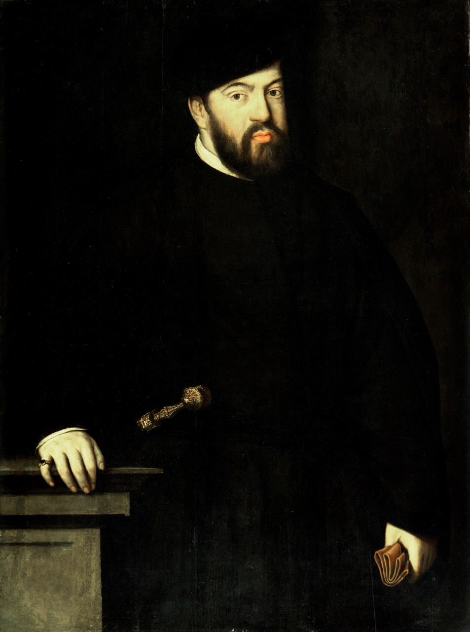 Portrait of king John III of Portugal (1502-1557).